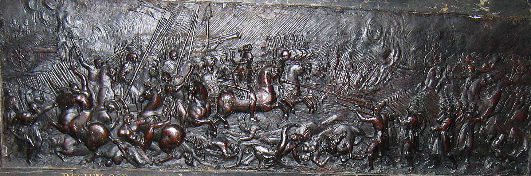 Jean Thibaut (French): Battle of Beresteczko 1651, relief at Abbaye de Saint-Germain-des-Prés in Paris.